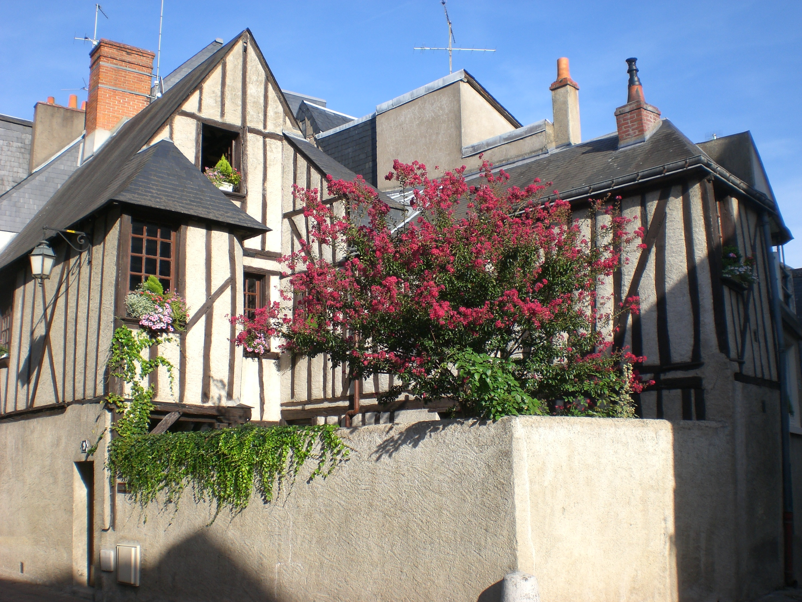 vieux Tours, maison XVe à pans de bois à grille, 9 rue Racine